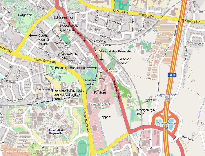 Bayreuth Kreuzstein Map using OpenStreetMap